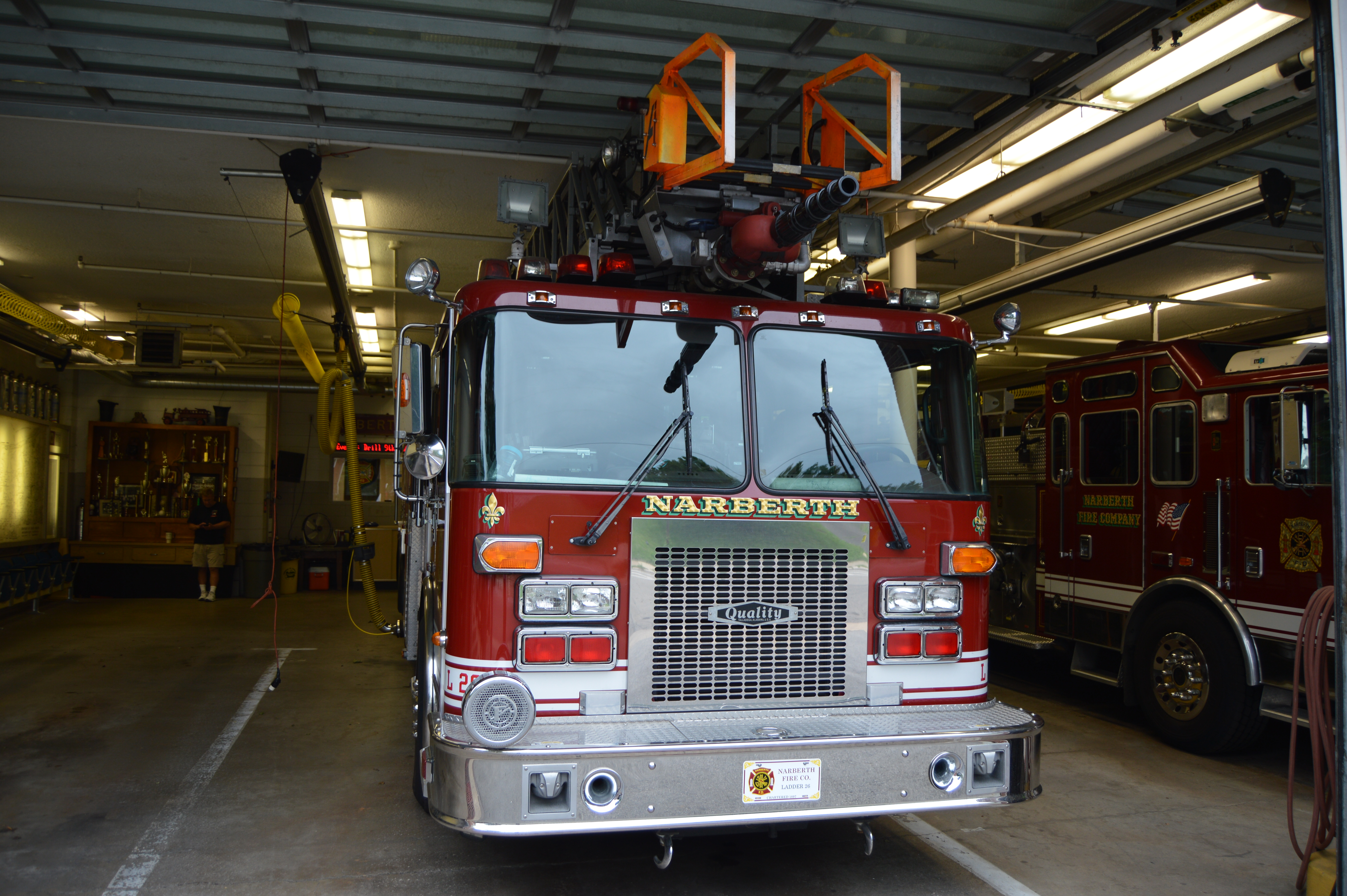 Fire trucks in Narberth, Pennsylvania.